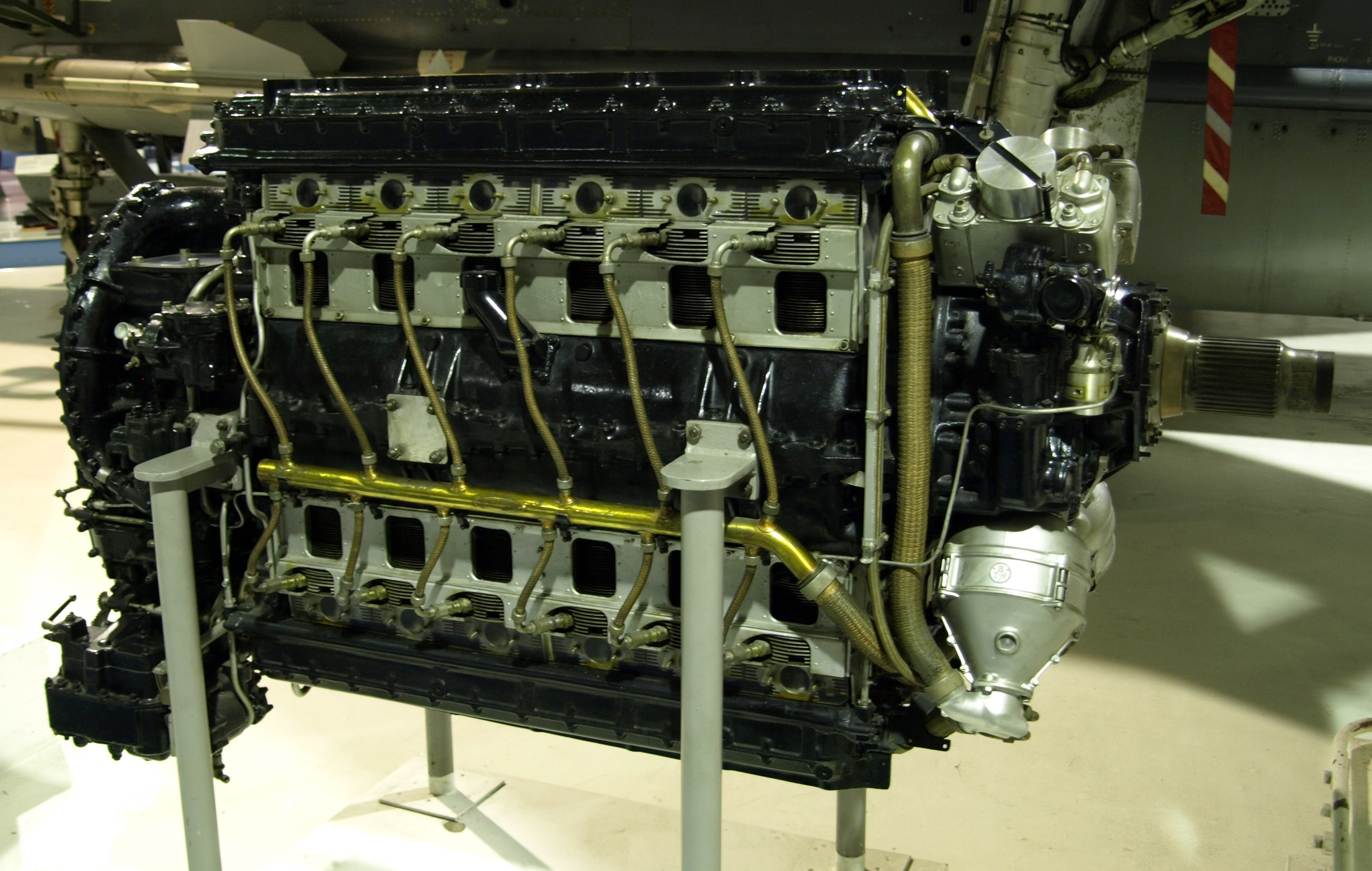 Napier Dagger aero engine at the Royal Air Force Museum, Hendon.